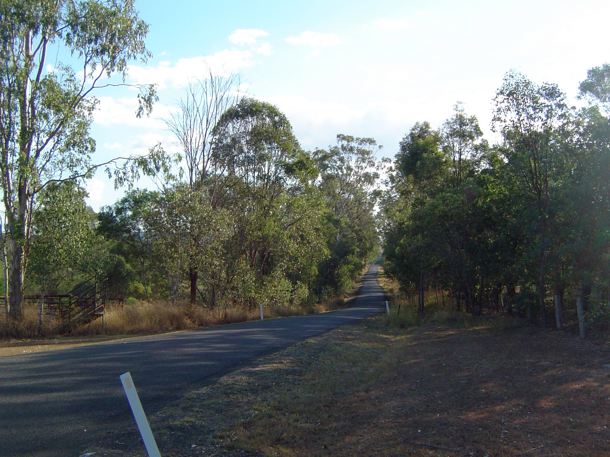 Photo of Beethams Road at Ironbark, Ipswich, Queensland, Australia.